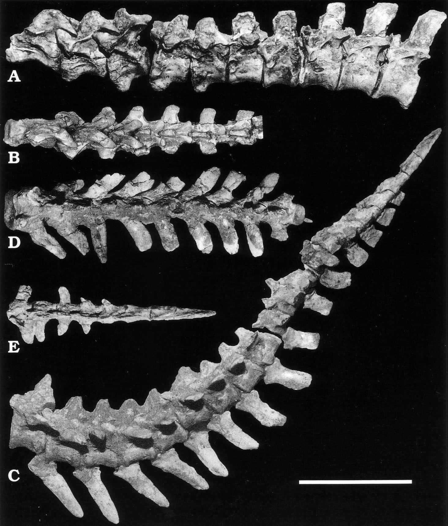 Nomingia gobiensis gen. et sp. n. GIN 1001119. A. Ten most anterior vertebrae from the preserved presacral series, left lateral view. B. Six most anterior vertebrae from the preserved presacral series, dorsal view. C. Tail as preserved (second through twenty-fourth caudals), left lateral view. D. Proximal part of tail (second through tenth caudals), dorsal view. E. Distal part of tail (eleventh through twenty-fourth caudals), dorsal view. Scale bar 10 cm.